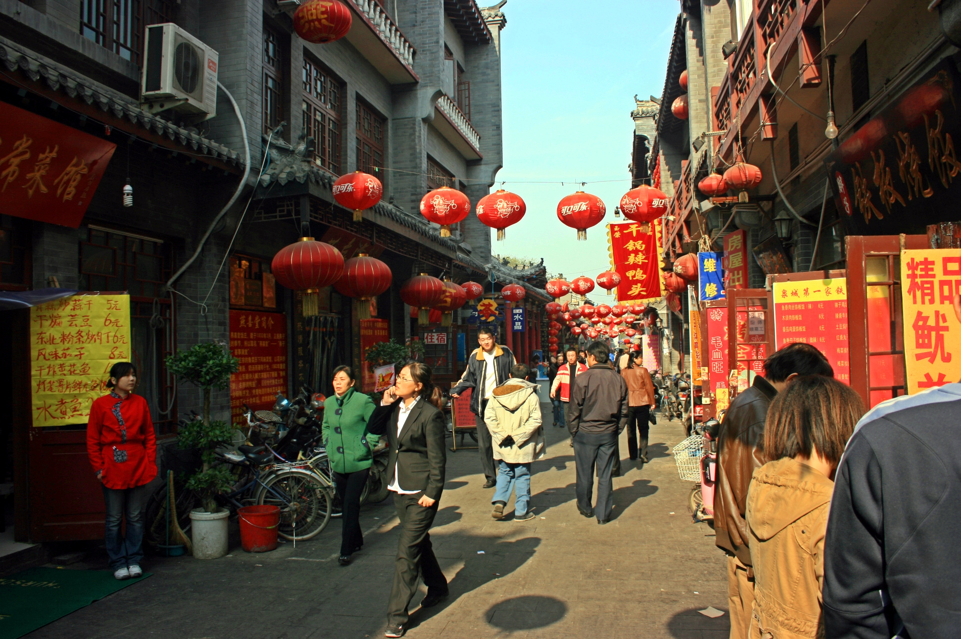 Water Lily Street (Chinese: 芙蓉街; pinyin: Fúróng Jiē) in the city of Jinan, Shandong Province, China.